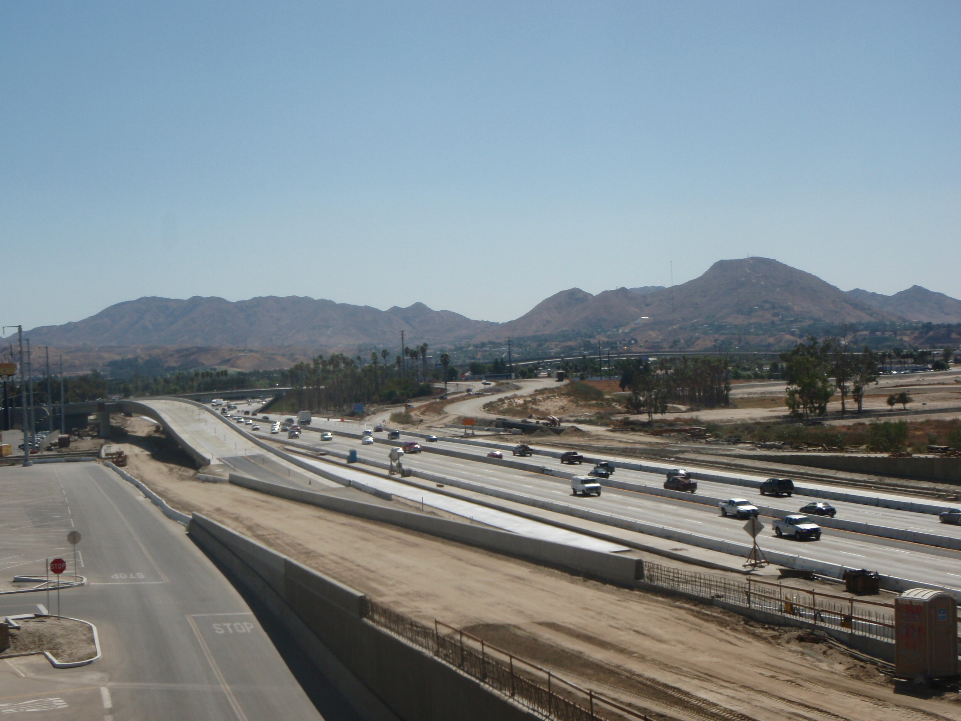 Construction along the I-215 in San Bernardino, CA around Orange Show Rd. The recently completed Orange Show Rd. on-ramp as well as the Inland Center Dr. off-ramp that is nearing completion are visible on the near side. The far side shows parts of the on-ramp for Inland Center Dr. and off-ramp for Orange Show Rd. that are also now under construction. Construction of new lanes for the new access ramps as well as to widen the freeway is visible as well.